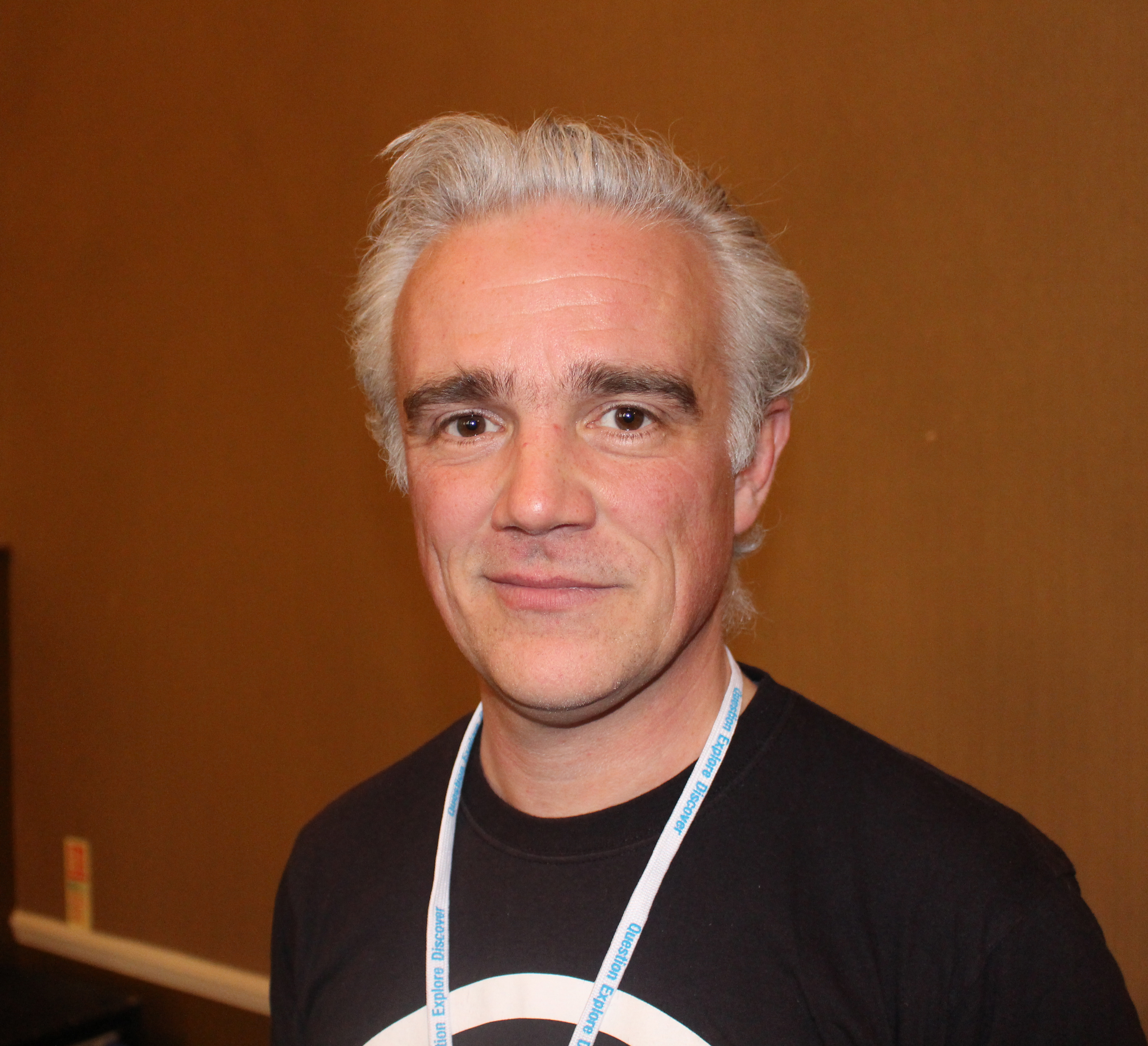 Chair of the UK pirate party